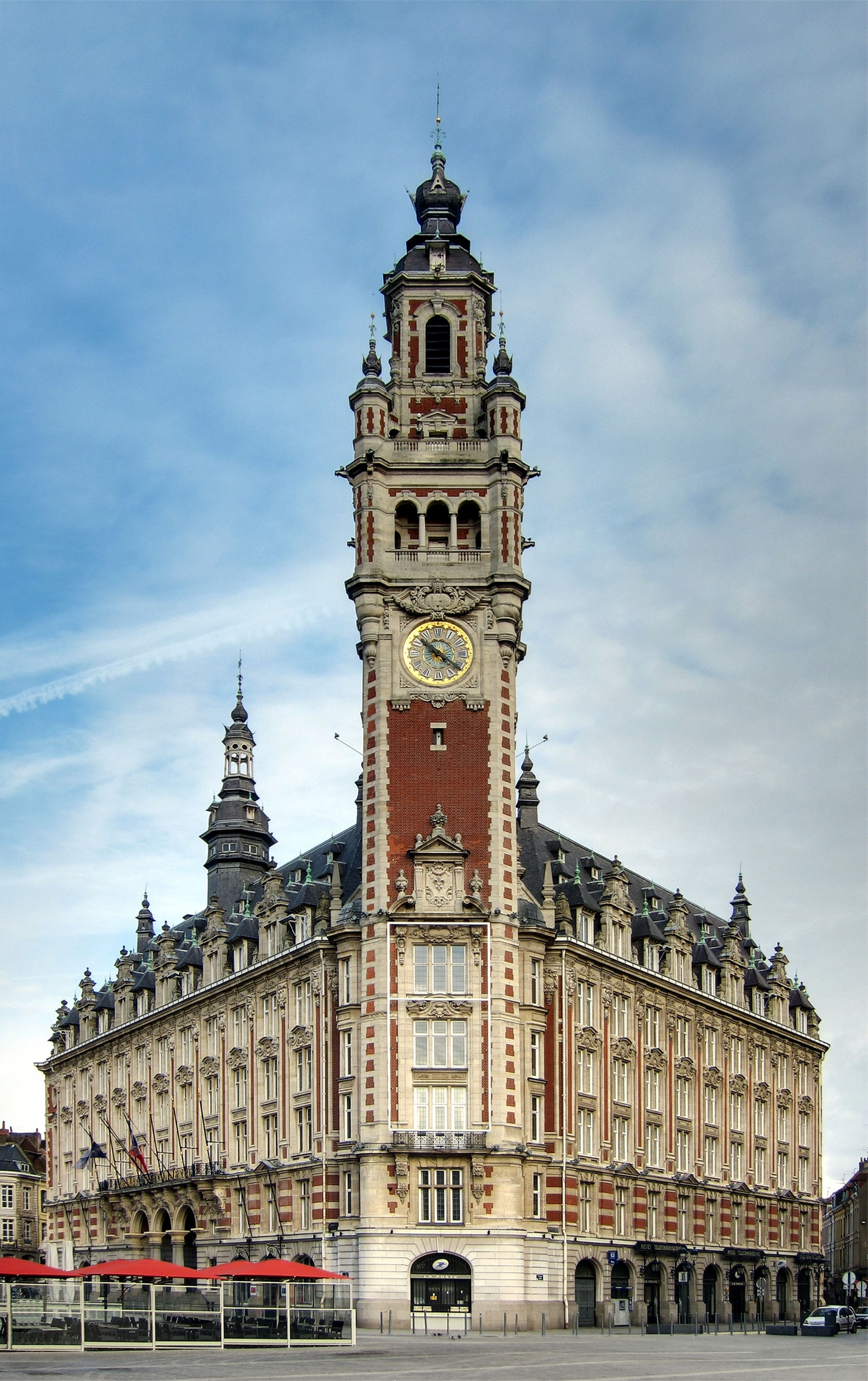 Chamber of Commerce of Lille, France, built between 1910 and 1921 by the architect Louis-Marie Cordonnier.